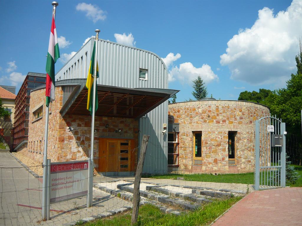 Klebelsberg Culture Centre in Pesthidegkút-Ófalu, Budapest, Hungary